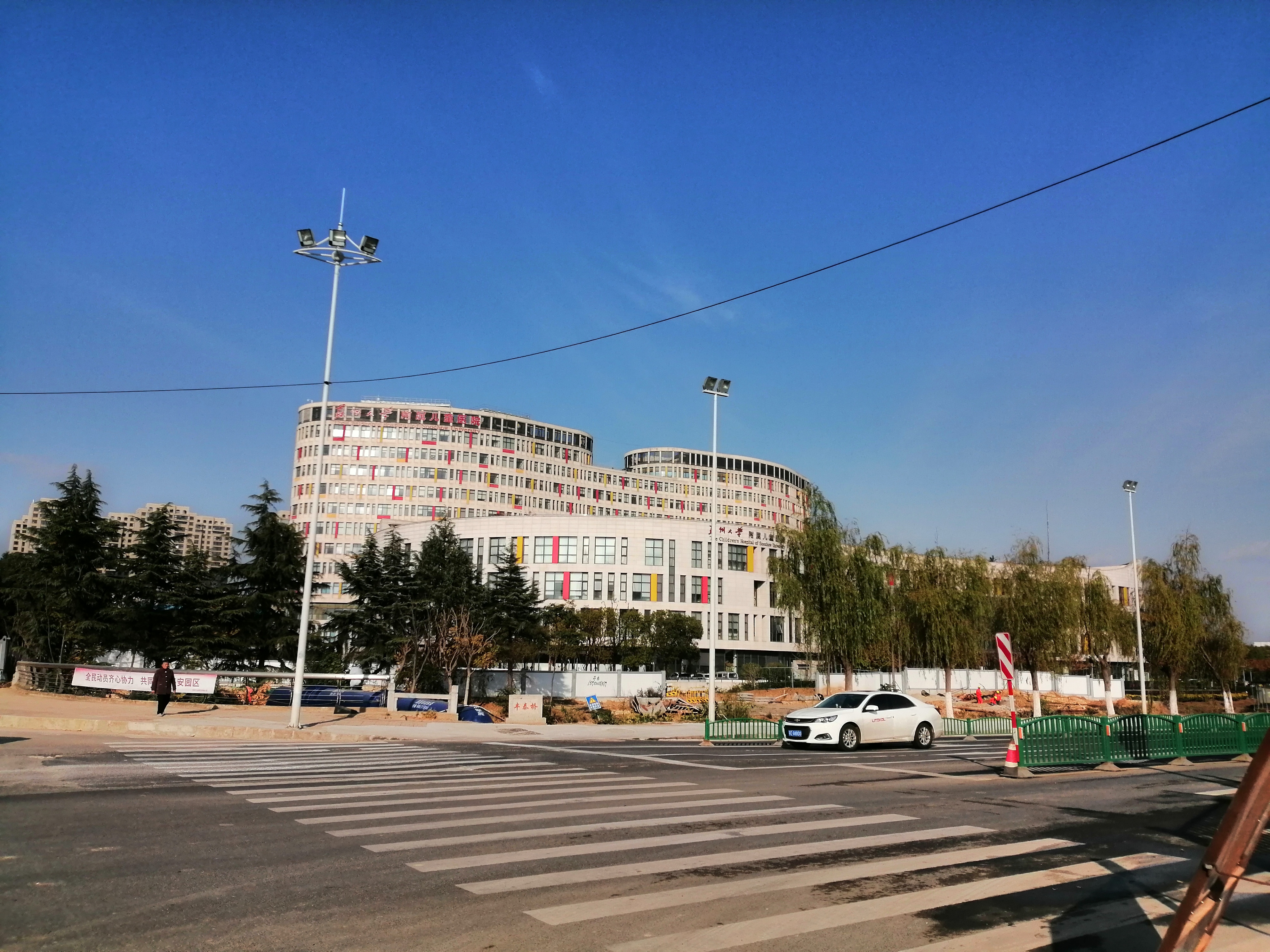 Headquarters campus of Children Hospital Affillated to Soochow University, located on Zhongnan Street, Suzhou Industrial Park, China. 中文（中国大陆）: 苏州大学附属儿童医院总院，位于苏州工业园区钟南街